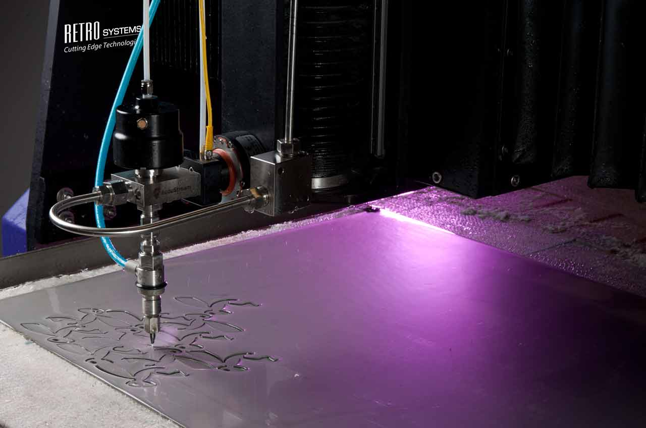 Retro Systems waterjet CNC cutting machine.